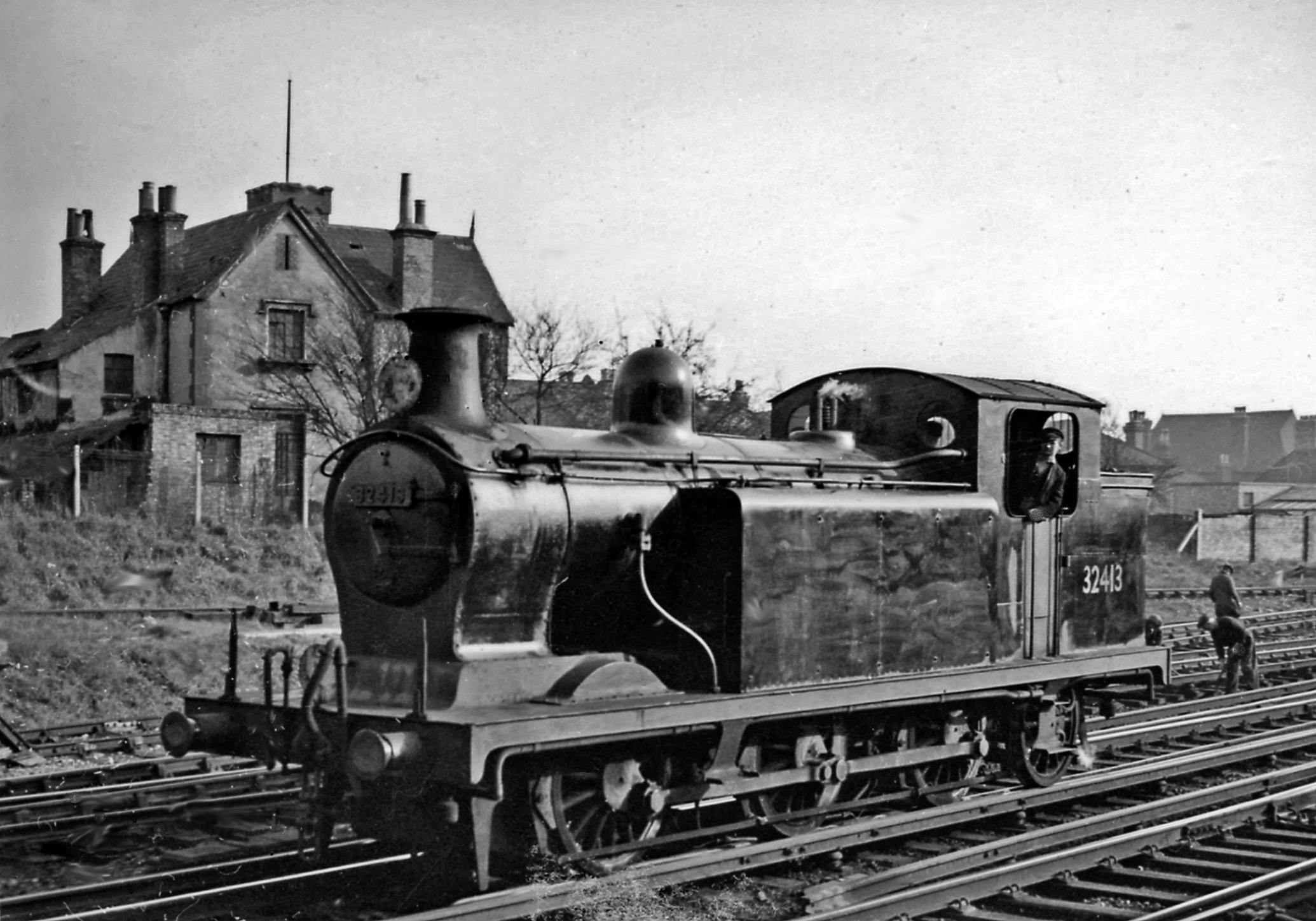 Ex-LB&SC 0-6-2T at Norwood Junction. View eastward from just north of the station: SR ex-Brighton line from London Bridge; the branch from Crystal Palace (Low Level) is visible behind the engine. No. 32413 is an R. Billinton E6 class 0-6-2T built 7/1905 (as 'Fenchurch') and withdrawn 11/58 - but it looked in good condition here six months earlier.